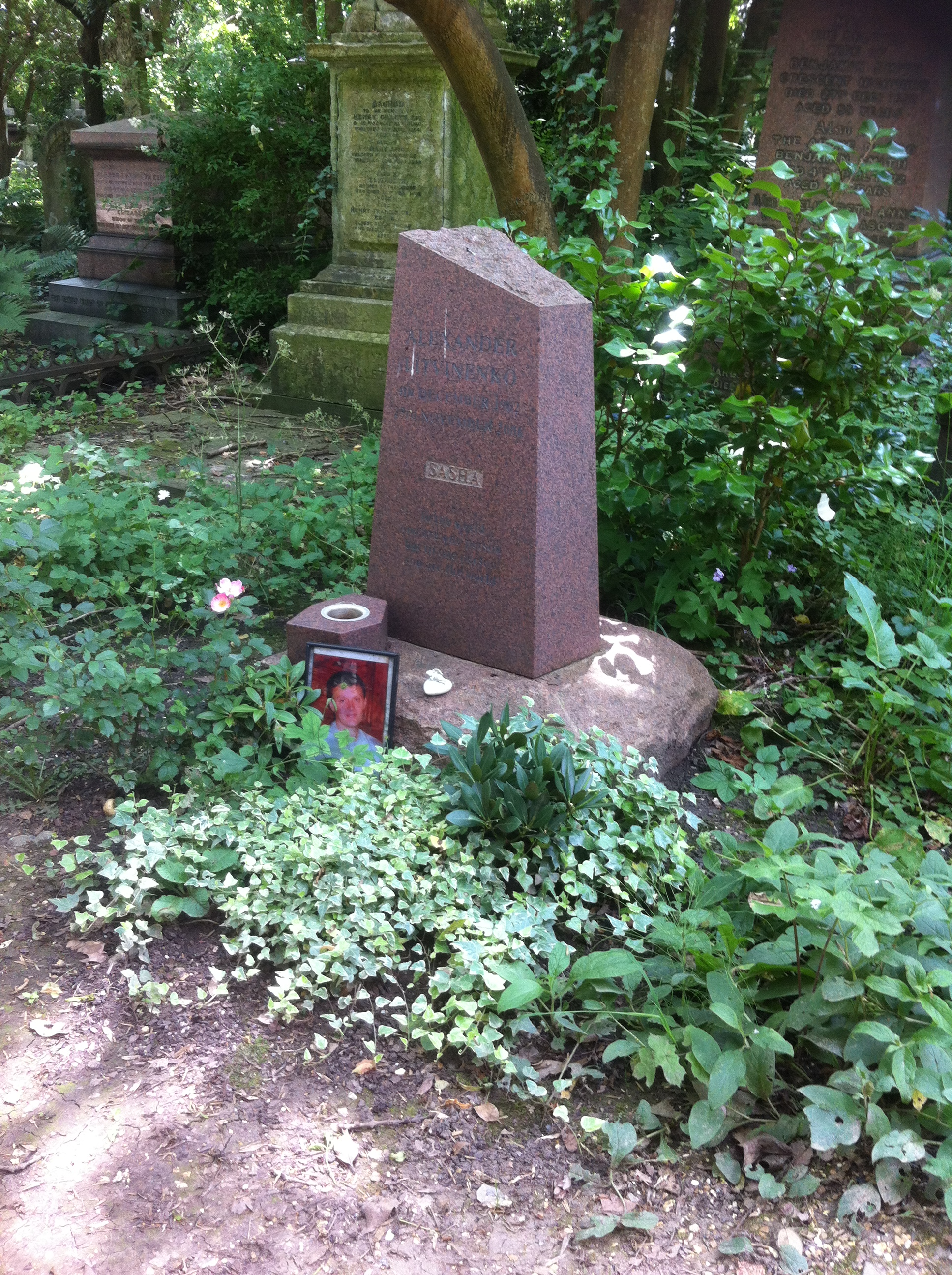 The grave of Alexander Litvinenko in Highgate Cemetery.